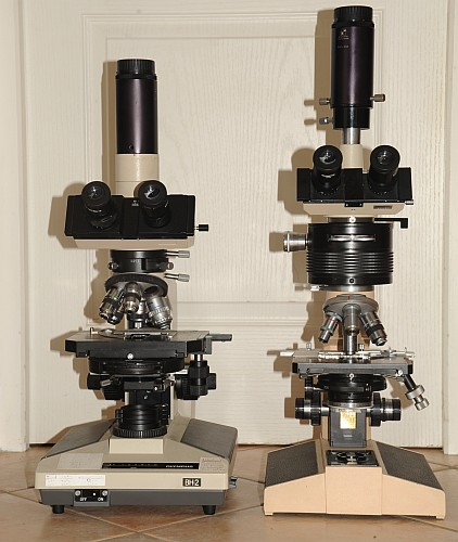 2 microscopes with DIC: Olympus BH2 and PZO Biolar